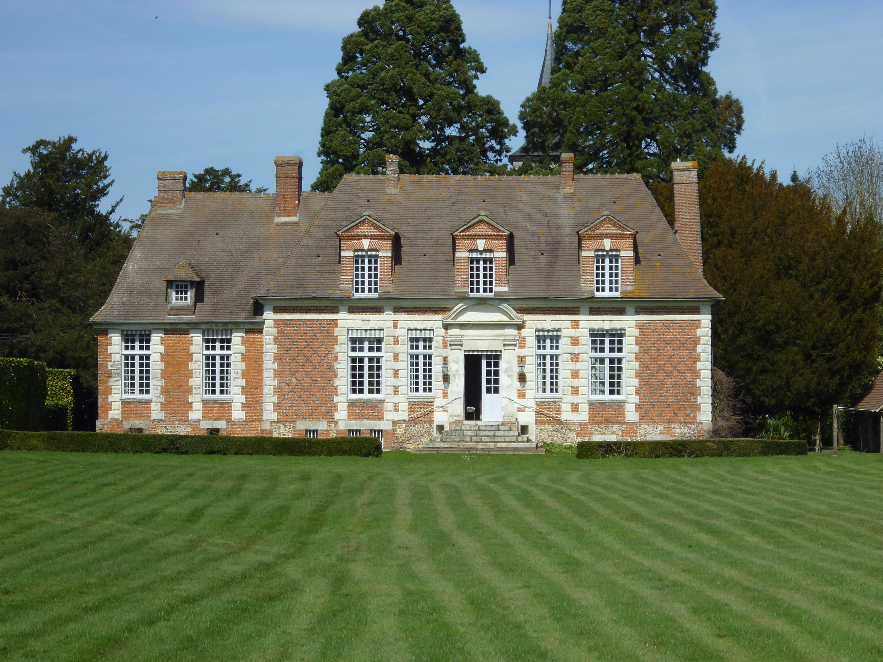 Back side of the Manoir de Berthouville (Eure, France), a hunting lodge that was built in 1652.